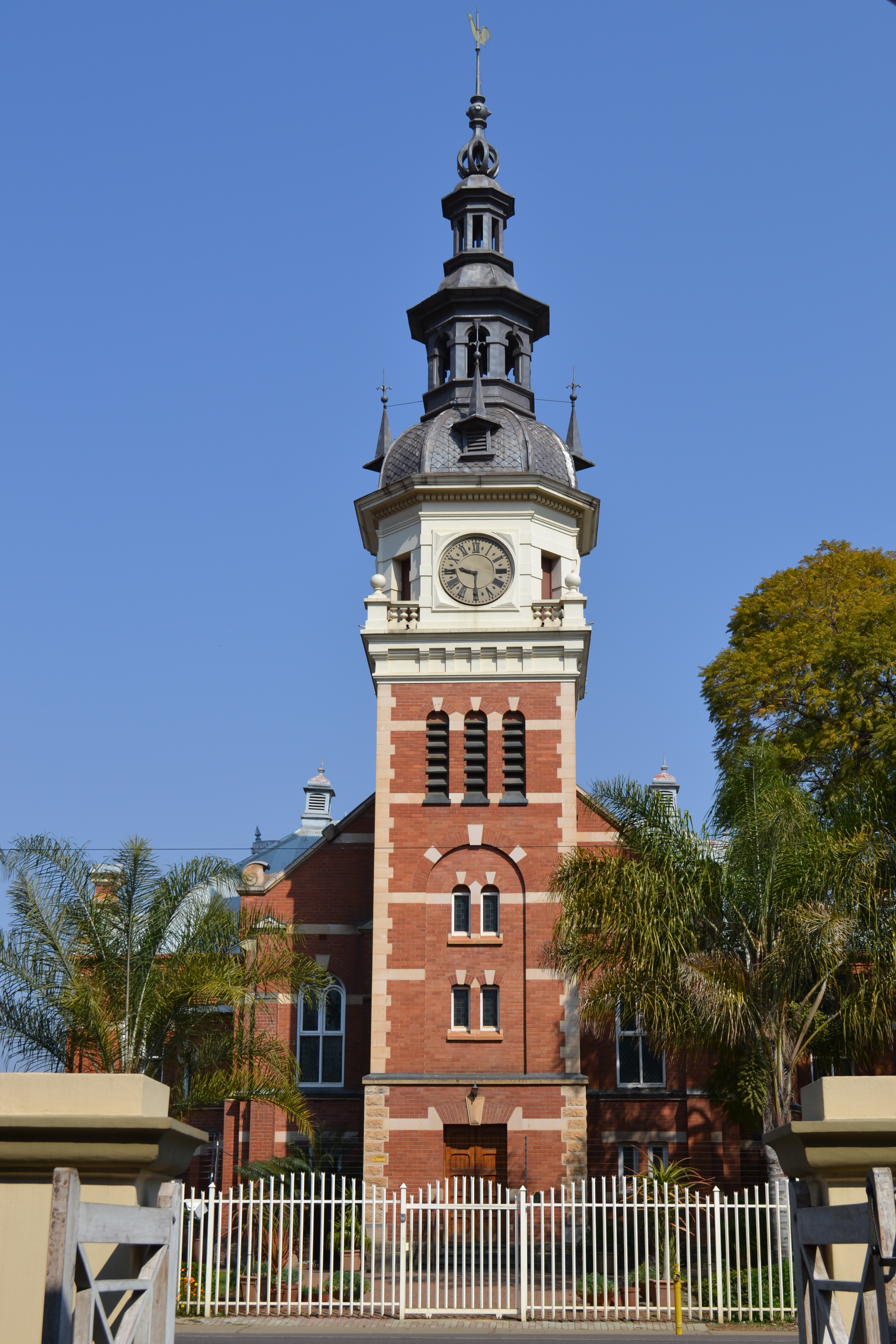 Gereformeerde Kerk Pretoria Kerk straa